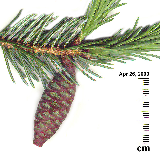 Picea omorika - young cone (female strobilus) (scan: Mihailo Grbić)